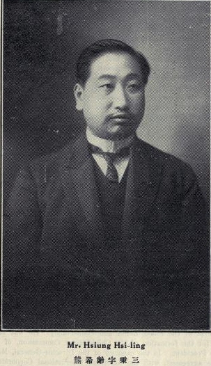 Xiong Xiling (Hsiung Hsi-ling), Bingsan (1870 - 1937)